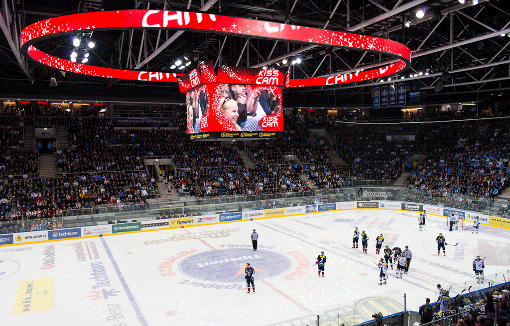 Colosseo HD LED Scoreboard and advertising ribbon strip above the ice at the Ondrej Nepela Arena in Bratislava, Slovakia